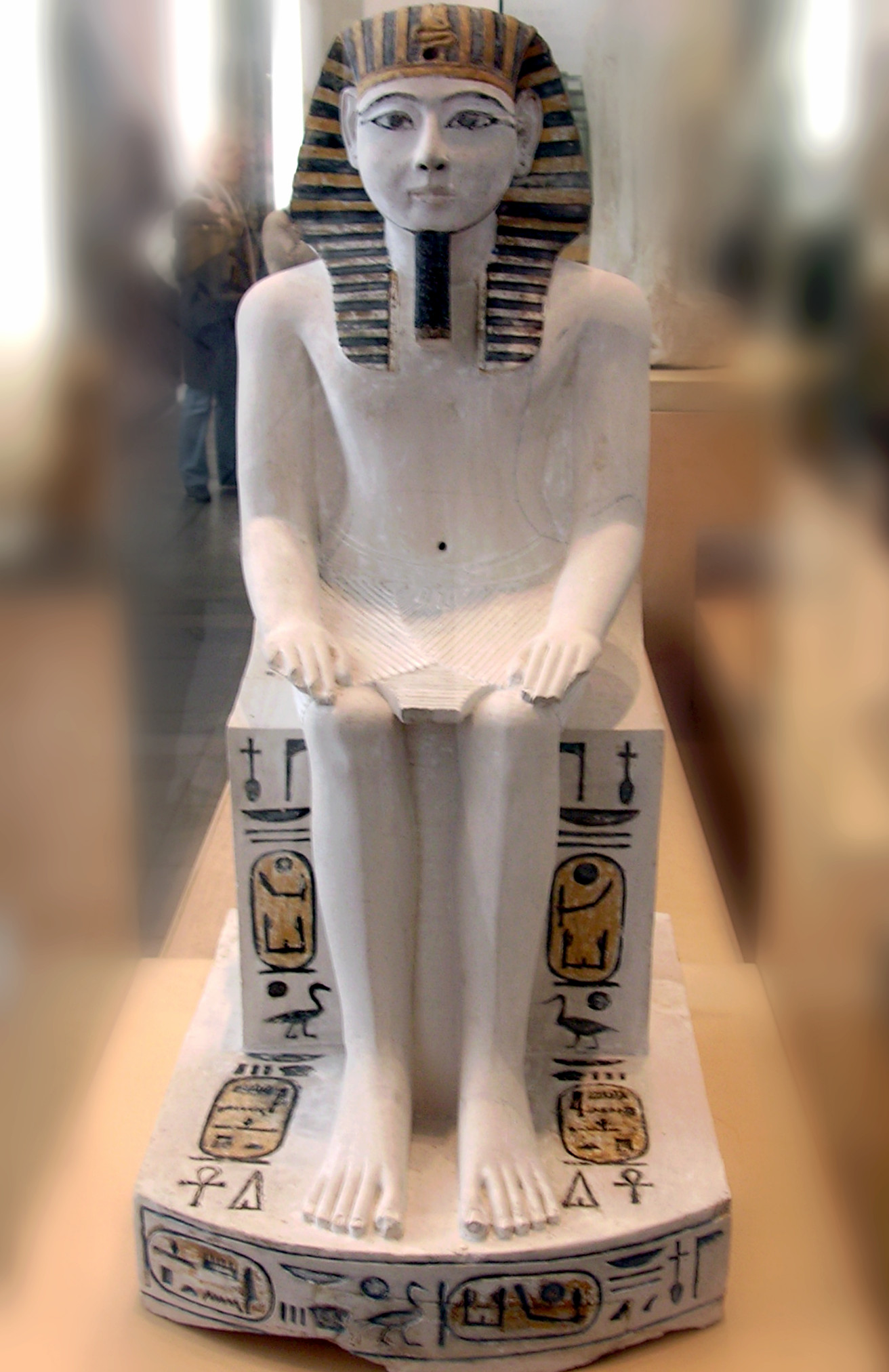 Pharaoh Amenhotep I of the 18th dynasty of Egypt